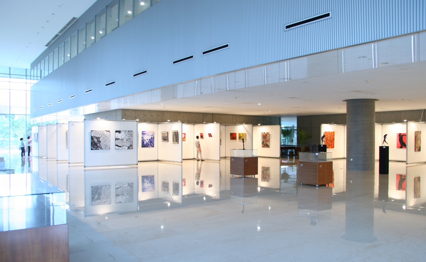 OpenArtCode Shanghai 2012 Pudong Library